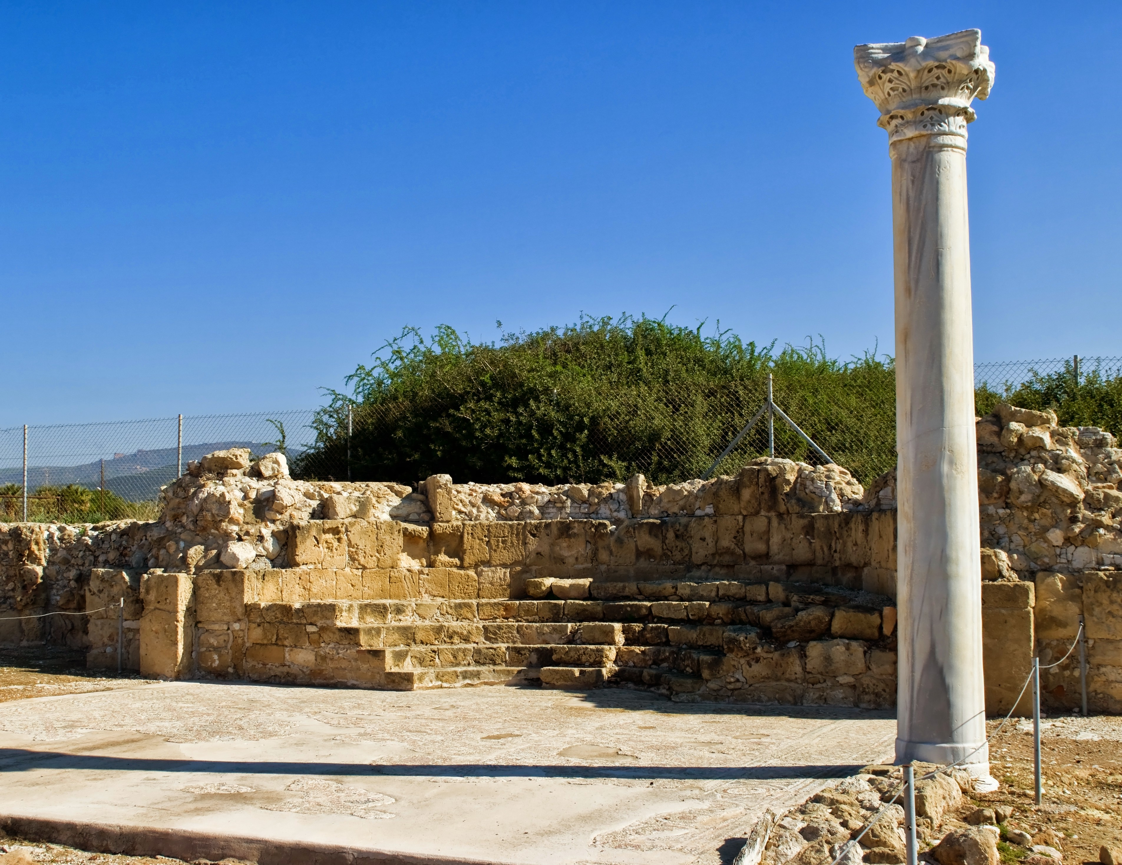 Agios Georgios Pegeia Archaeological Site also known as Agios Yeorgios Archeological Site, Cyprus.